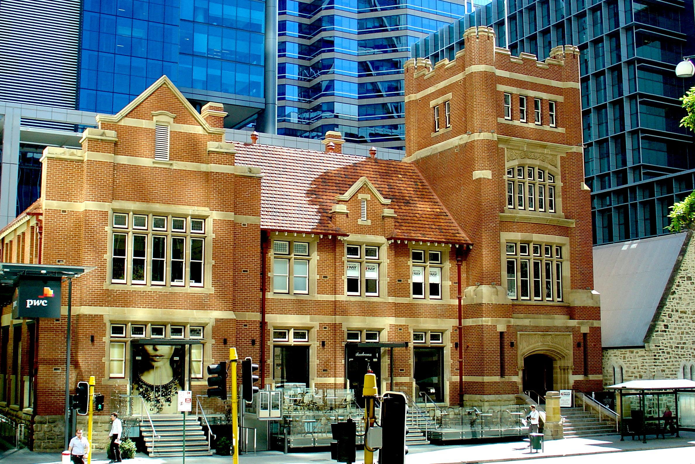 The Old Perth Technical School (built 1910) after unsympathetic commercial refurbishment in 2012.